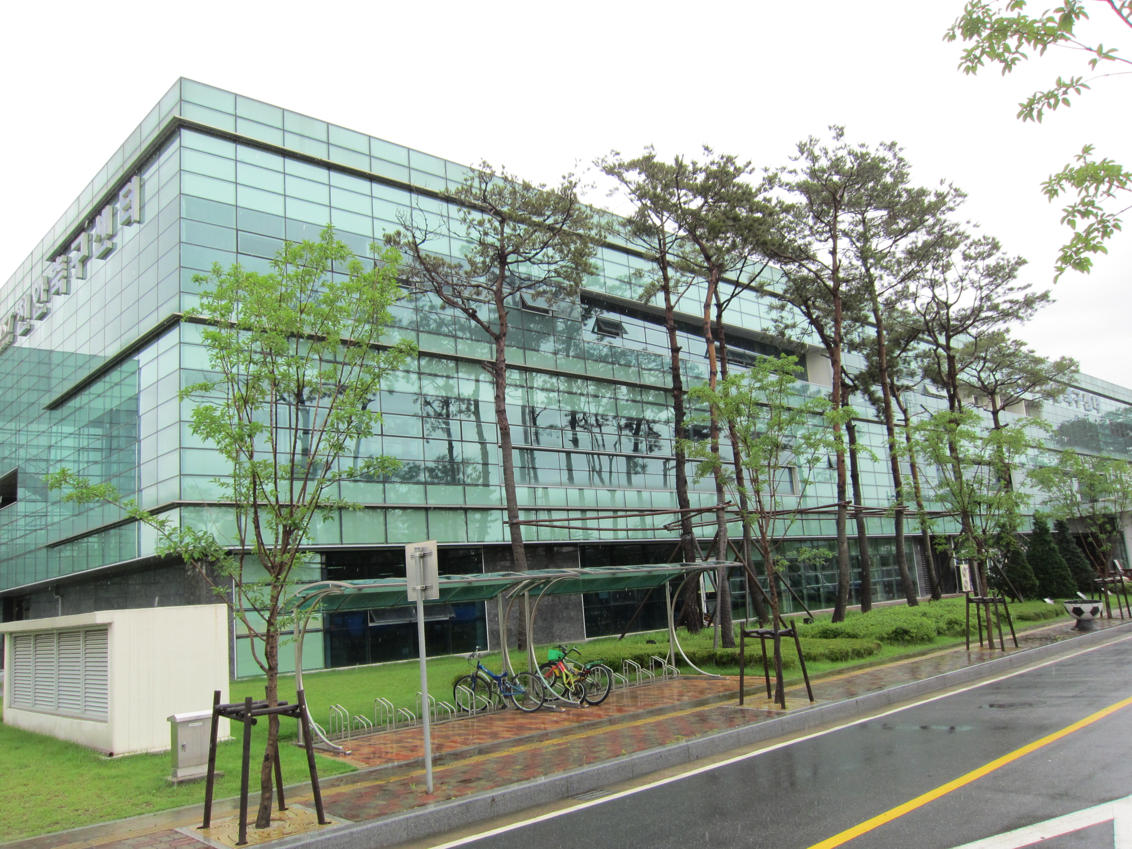 Cheonan Soccer Center